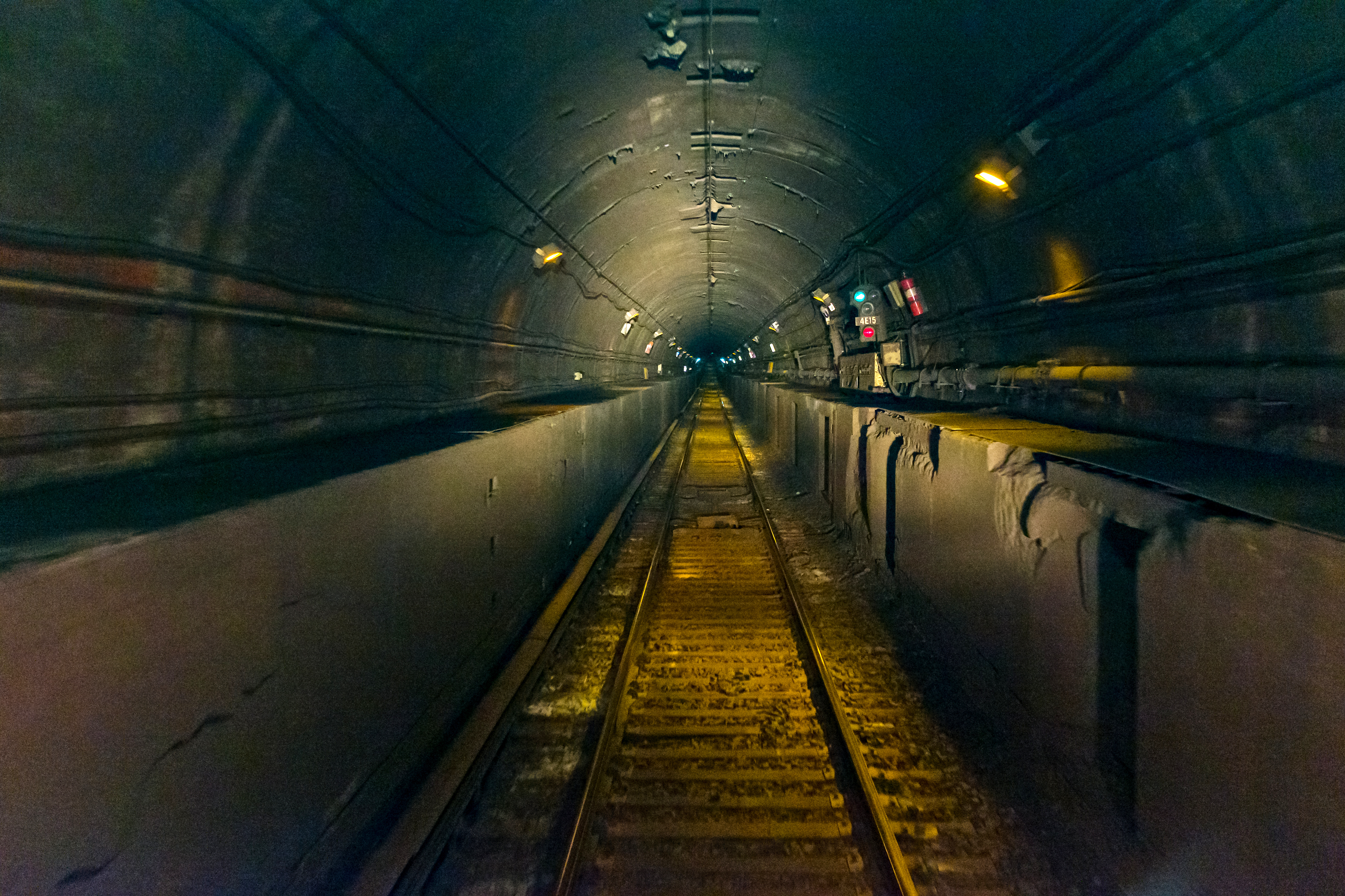 East River Tunnel #4, under the East River, between Manhattan and Queens